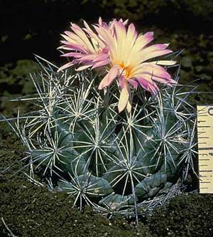 A nightblooming cactus from the U.S. Fish and Wildlife Service (Coryphantha ramillosa ssp. ramillosa)